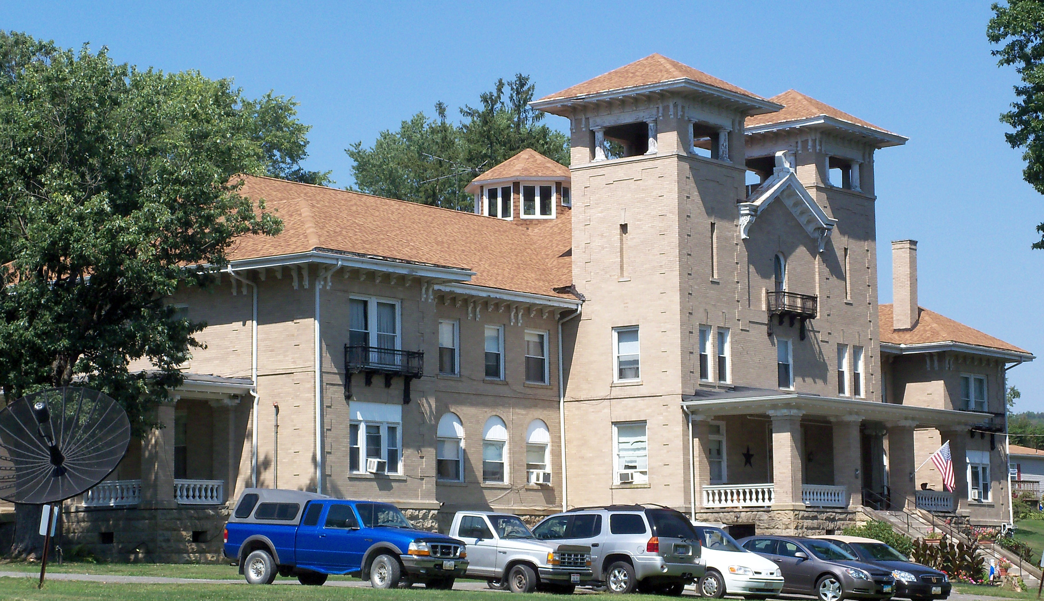 The county-run old folks home in Harrison County, Ohio